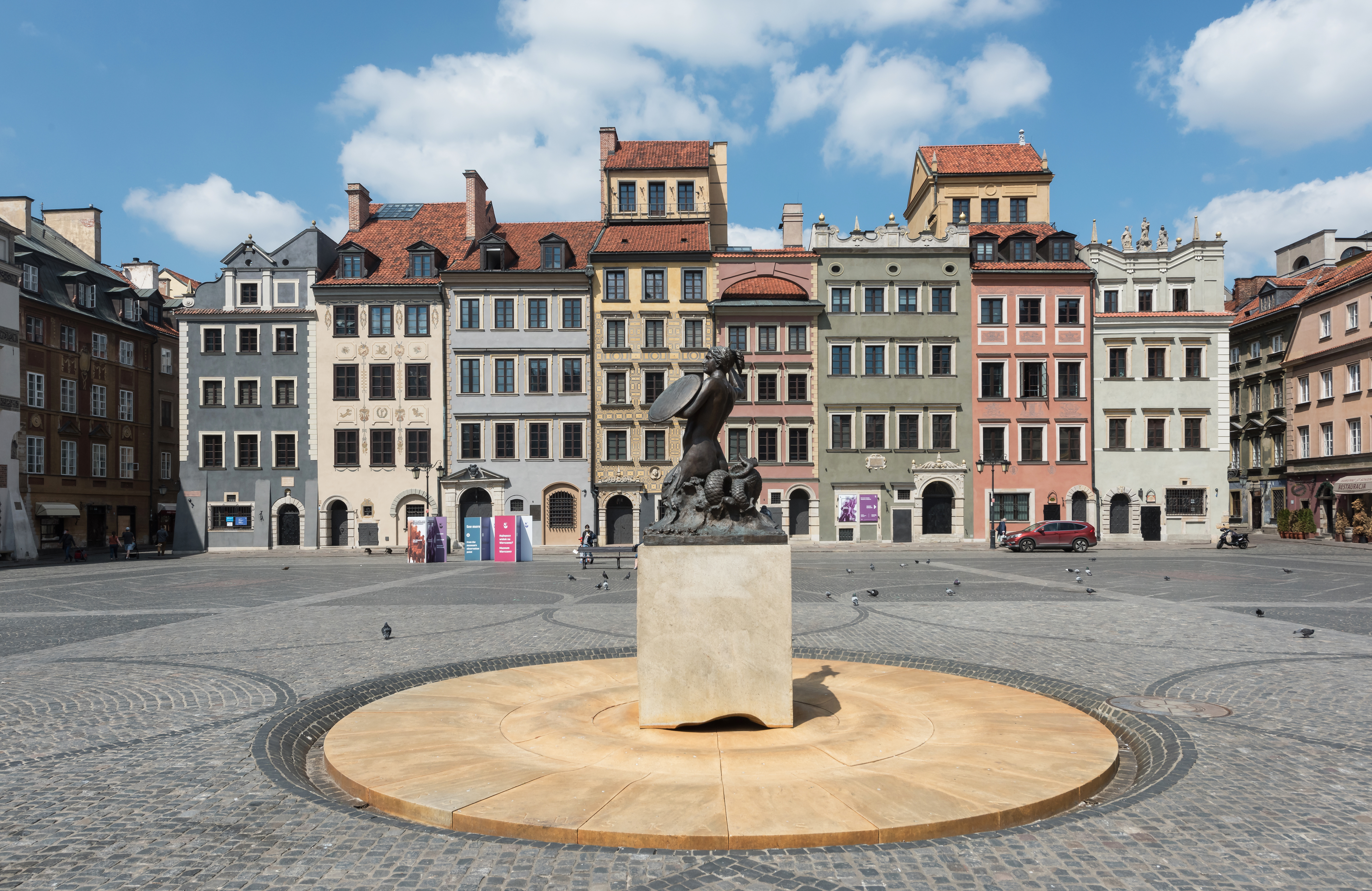 Warsaw Mermeid Monument and the Dekert Side in the Old Town Market Square in Warsaw